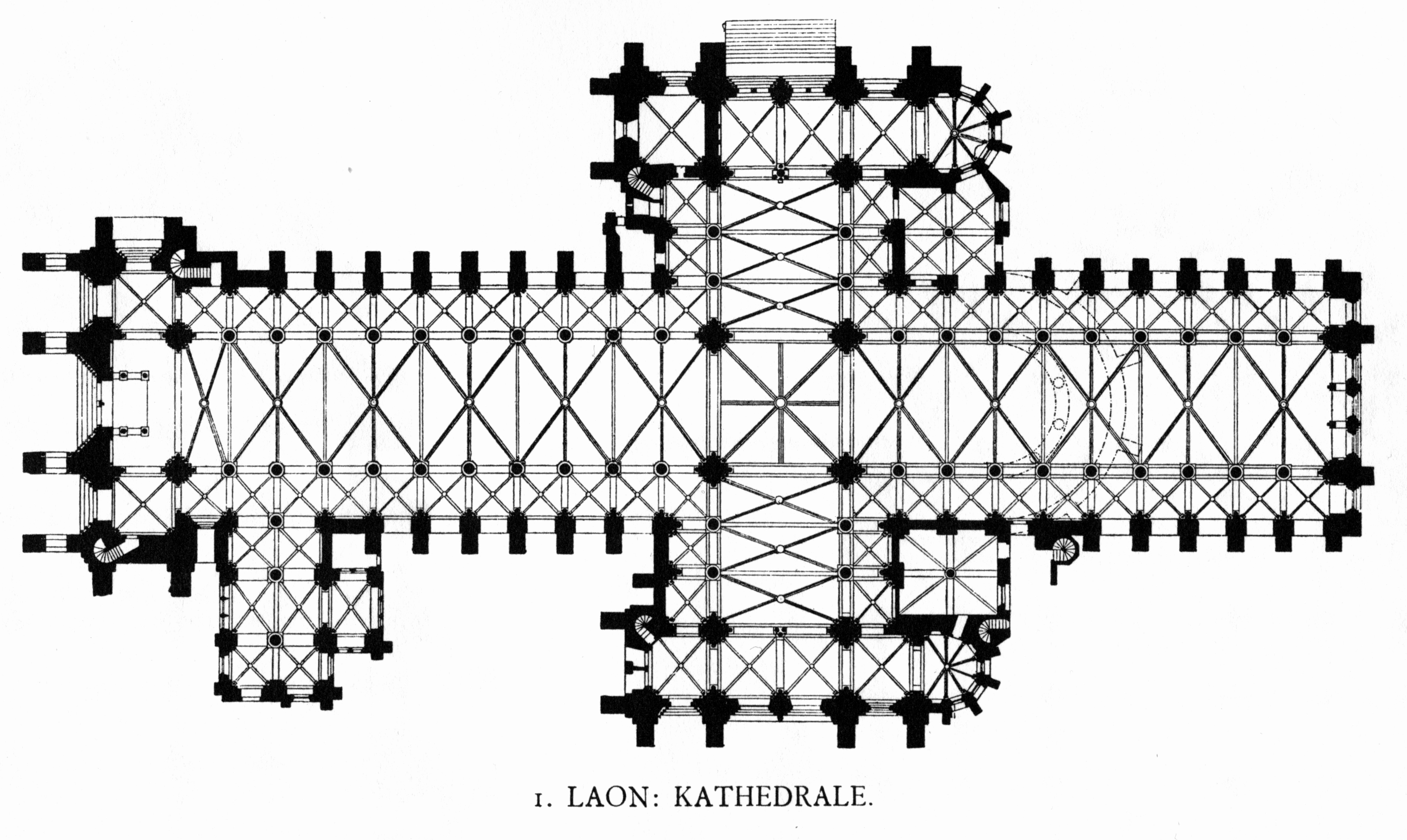 Laon, Cathedrale.